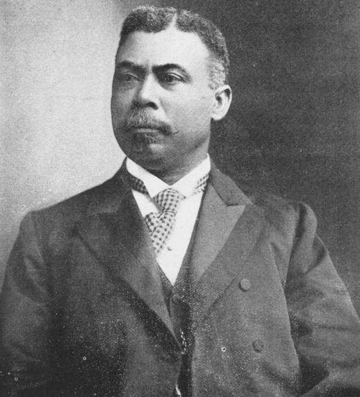 Noted Attorney/Social Reformer